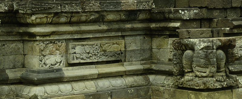 Candi Surowono, Pare, Kediri, Jawa Timur.